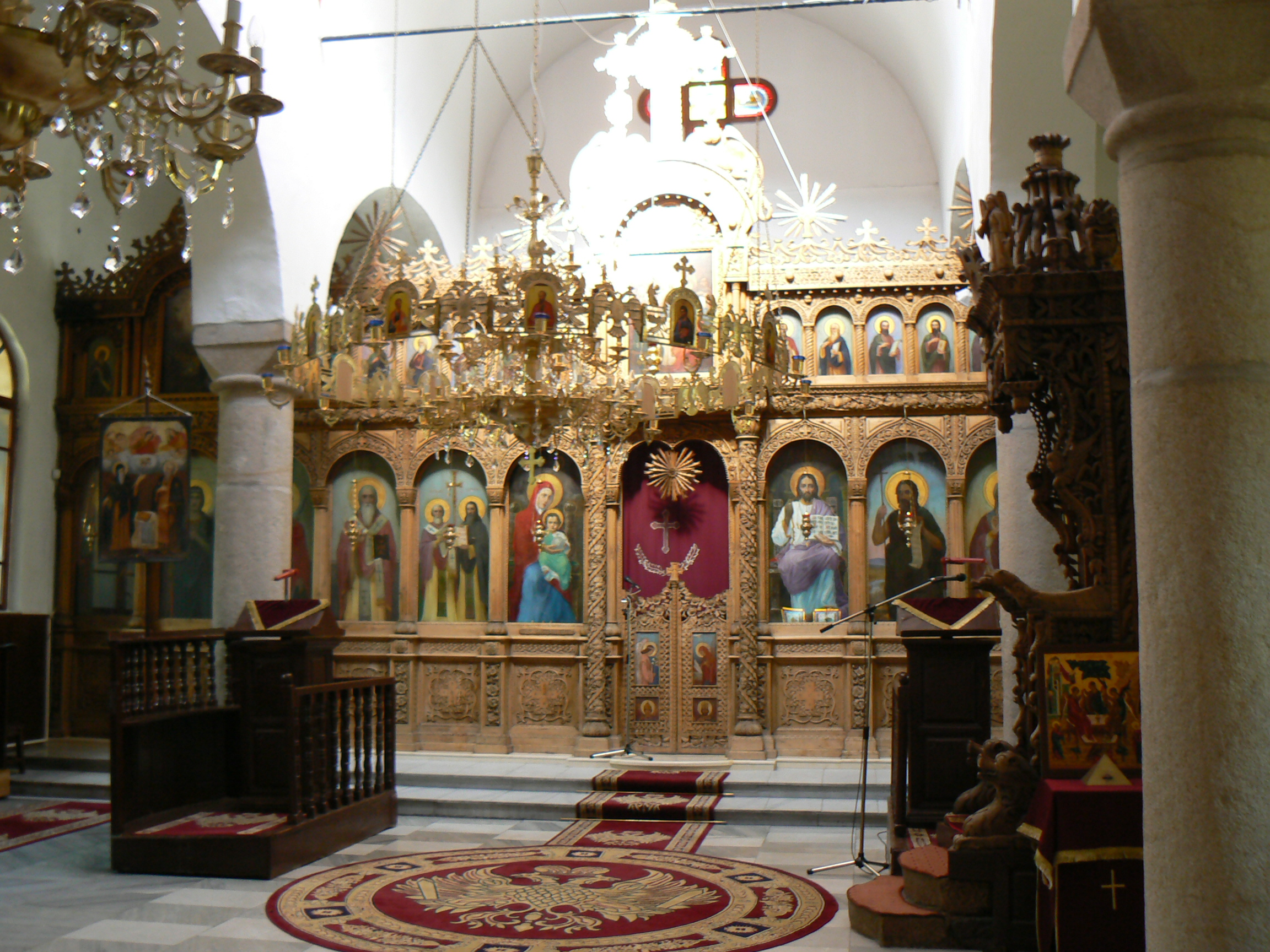 The iconostasis of church "St John Precursor" in Bratsigovo, Bulgaria.